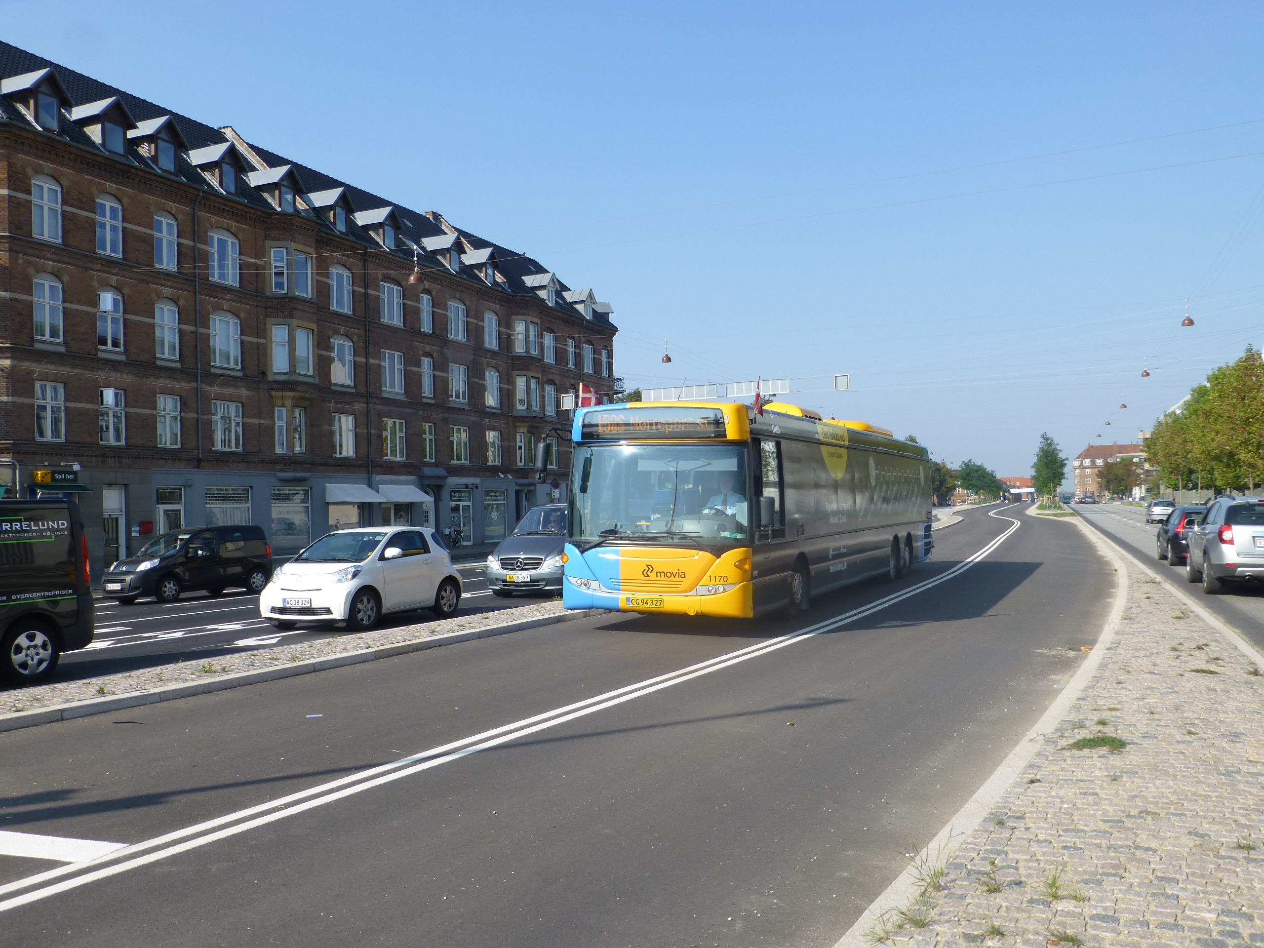 Den kvikke vej (the quick way), a bus rapid transit between Fredensbro and Lyngbyvej in Østerbro in Copenhagen. One of the first buses heading south, a Movia bus line 150S on Lyngbyvej at Vibenshus Runddel.